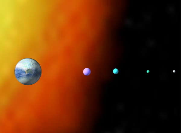 This image was created August 25, 2004 by me, David Speakman [1], for Wikipedia to illustrate the Darkover article. I release it under the GFDL license as detailed [below]. Davodd 10:44, Aug 27, 2004 (UTC).